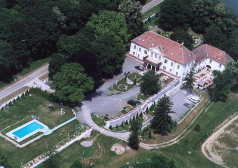 Somogygeszti, Hungary, aerialphotography (Jankovich–Bésán Mansion) This is a photo of a monument in Hungary, Identifier: 8084